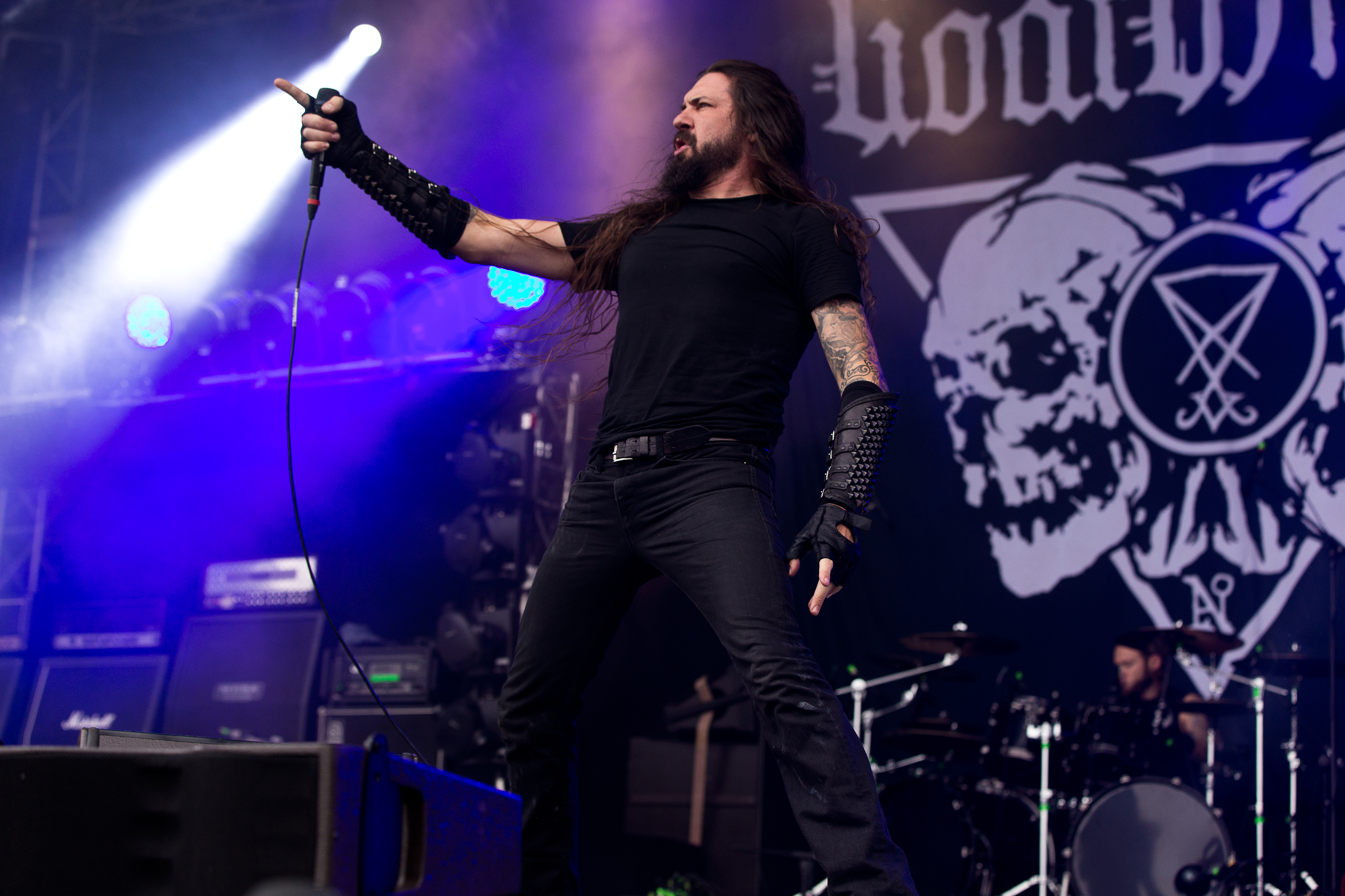 The US blackened death metal band Goatwhore at the Party.San Metal Open Air 2016 in Obermehler-Schlotheim/Germany